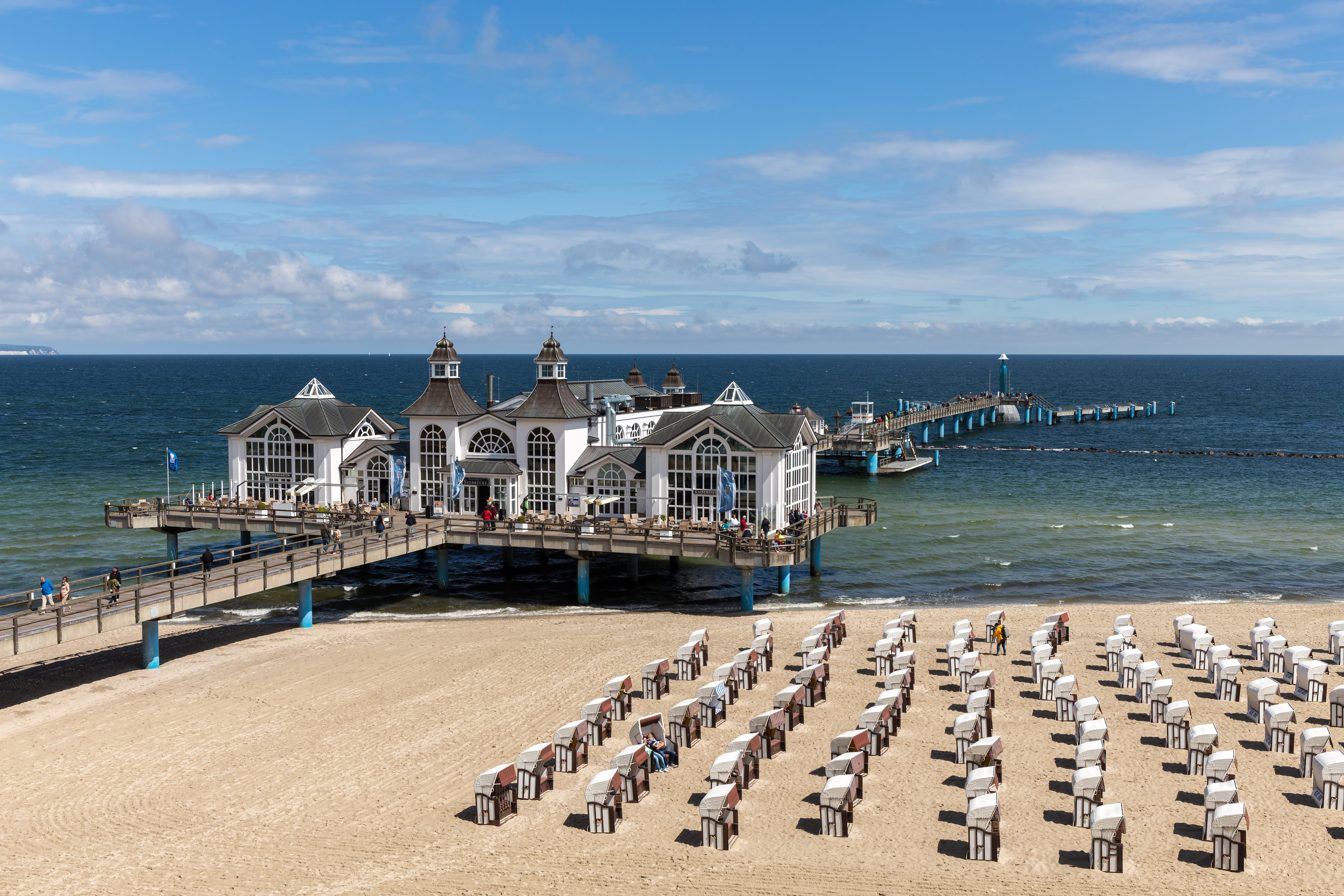 Sellin pier, Rügen.